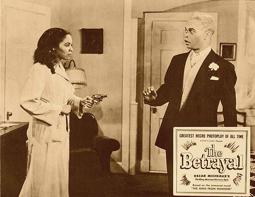 Poster for the 1948 film The Betrayal. This is the last film of Oscar Micheaux and all copies are considered lost. Basing this on the cast list and a poster for the film, this is(from left) Verlie Cowan (Linda Lee) and Harris Gaines (her father, Dr. Lee). The item has no copyright markings on it as can be seen in the link above. At lower left is Printed in USA.